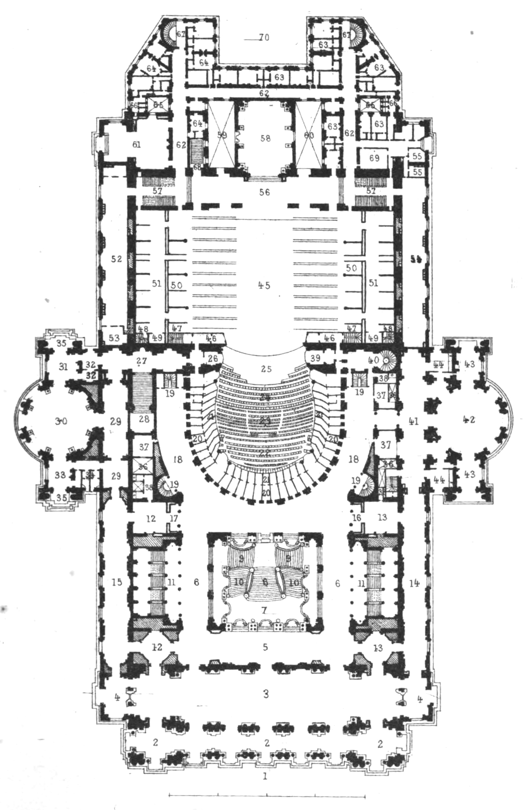 Plan of the Opéra Garnier. Some of the spaces depicted: Loggia (2) Grand Foyer (3) Avant Foyer (5) Grand Escalier (8–10) Side staircases (11) Salon de la Lune (12) Salon du Soleil (13) Auditorium (20–24) Orchestra pit (25) Rotonde de l'Empereur (30) Rotonde du Restaurant (42) Stage (45) Foyer de la Danse (58) Administration (63–64)